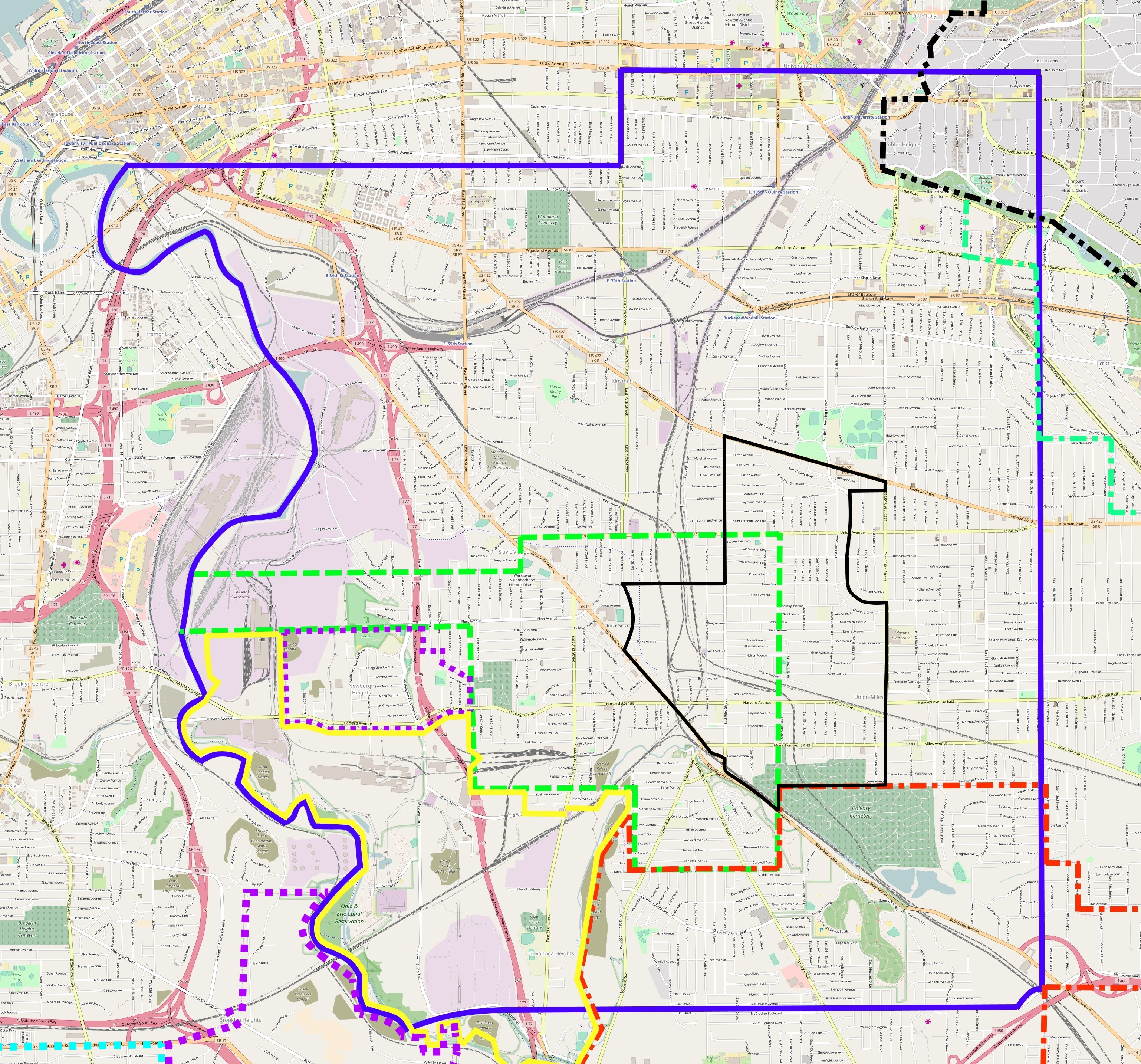 Modern street map of a portion of Cleveland, Ohio, and Cuyahoga County, Ohio, in the United States, showing the 1814 boundaries of Newburgh Township (dark purple solid line). The Union-Miles Park neighborhood boundary is shown in the solid black line. From upper-right, going clockwise, other boundaries are: Cleveland Heights, Ohio (black double-dot and dashed line) Shaker Heights, Ohio (teal double-dot and dashed line) Garfield Heights, Ohio (red dot and dashed line) Village of Newburgh, Ohio (green dashed line; absorbed by the city of Cleveland) Cuyahoga Heights, Ohio (yellow solid line) Brooklyn Heights, Ohio (light purple dotted line) Parma, Ohio (cyan dotted line) Village of Newburgh Heights, Ohio (light purple dotted line, surrounded by Cuyahoga Heights and Village of Newburgh) All other areas are now part of the city of Cleveland. Map based on information contained in Orth, Samuel P. (1910). A History of Cleveland, Ohio. Volume 1. Chicago: S.J. Clarke Publishing, page 46 overleaf; Chapman, Edmund H. (1981). Cleveland: Village to Metropolis. Cleveland: Western Reserve Historical Society. ISBN 0911704299. pages 20-21; Vail, H.L.; Snyder, L.M. (1890). Ordinances of the City of Cleveland. Revised and Consolidated. Cleveland: Clark-Britton Printing Co. pages 455-465.This map of Cleveland Heights, Ohio, U.S. was created from OpenStreetMap project data, collected by the community. This map may be incomplete, and may contain errors. Don't rely solely on it for navigation.